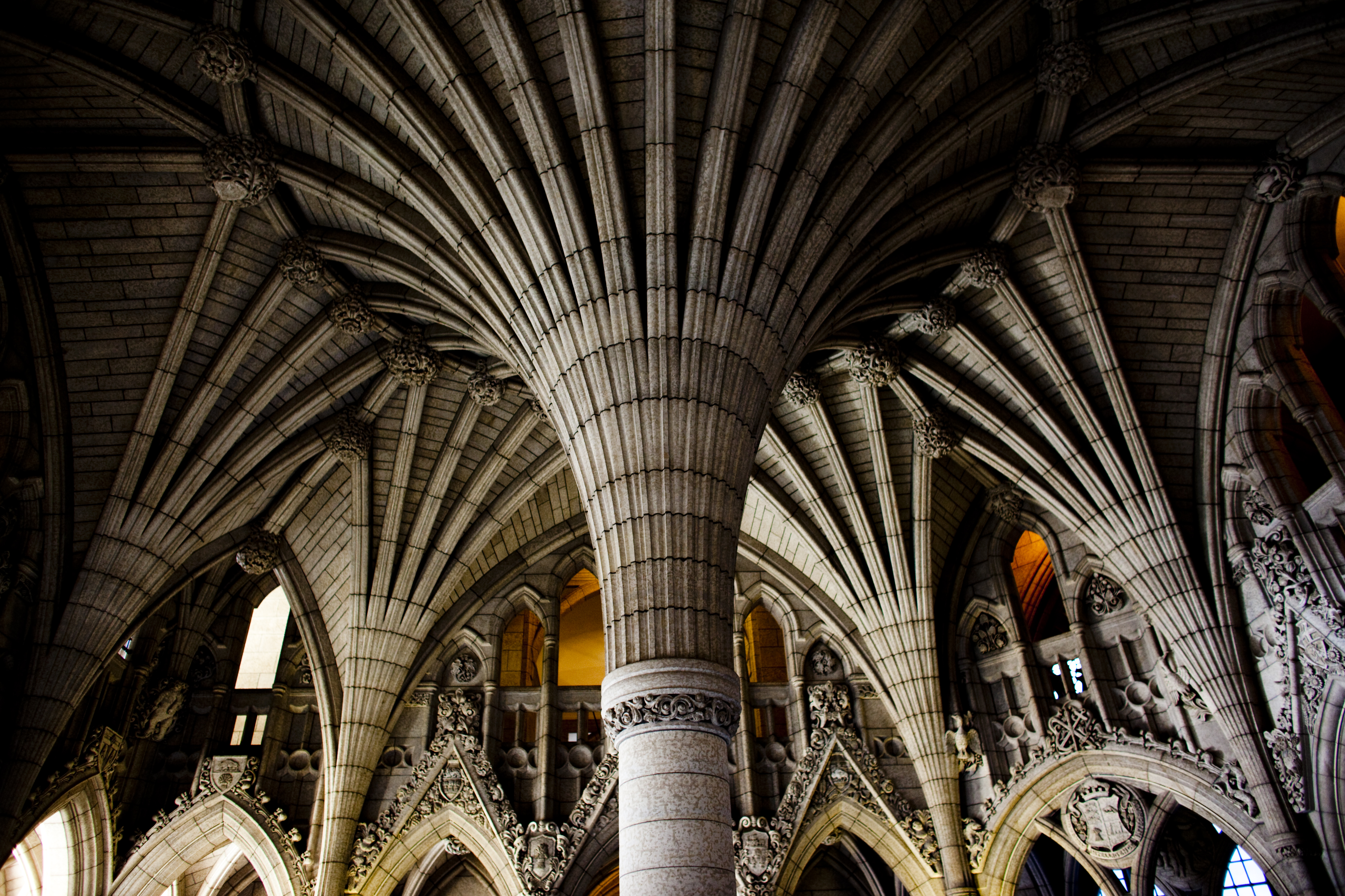 Interior of the Centre Block, Parliament Hill, Ottawa, Canada.